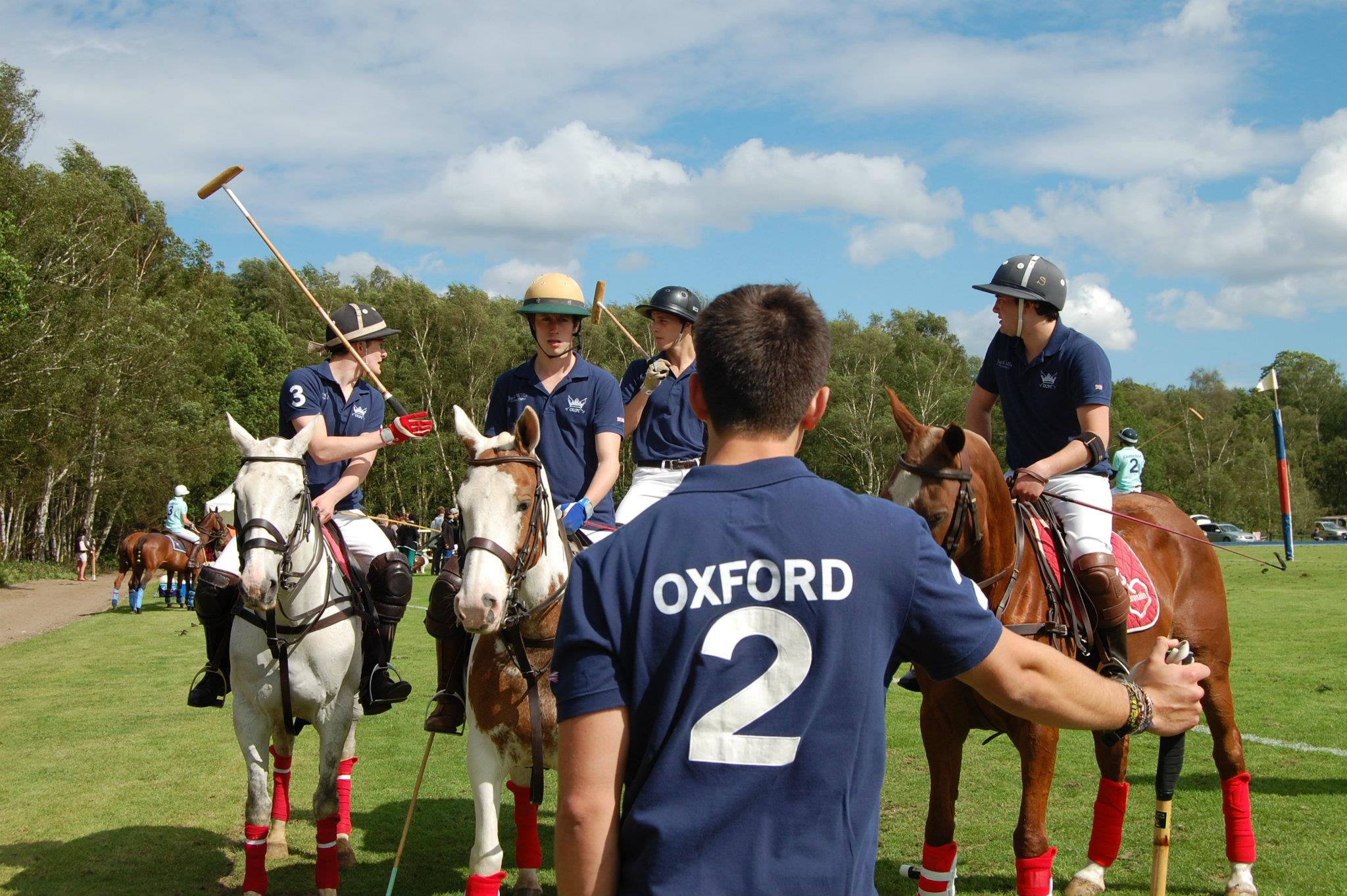 Varsity Polo Match 2012